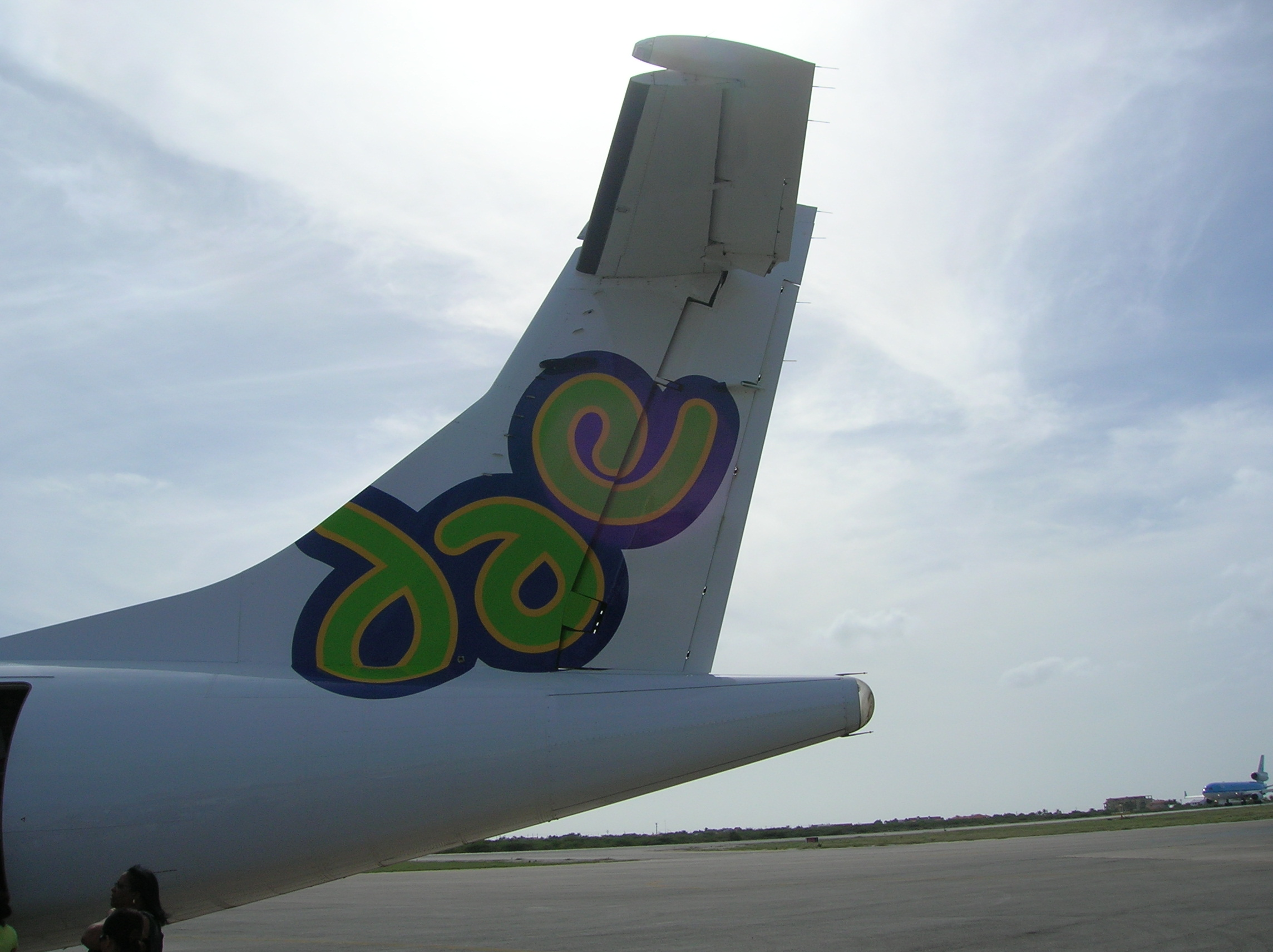 tail section of an aircraft owned by Dutch Antilles Express